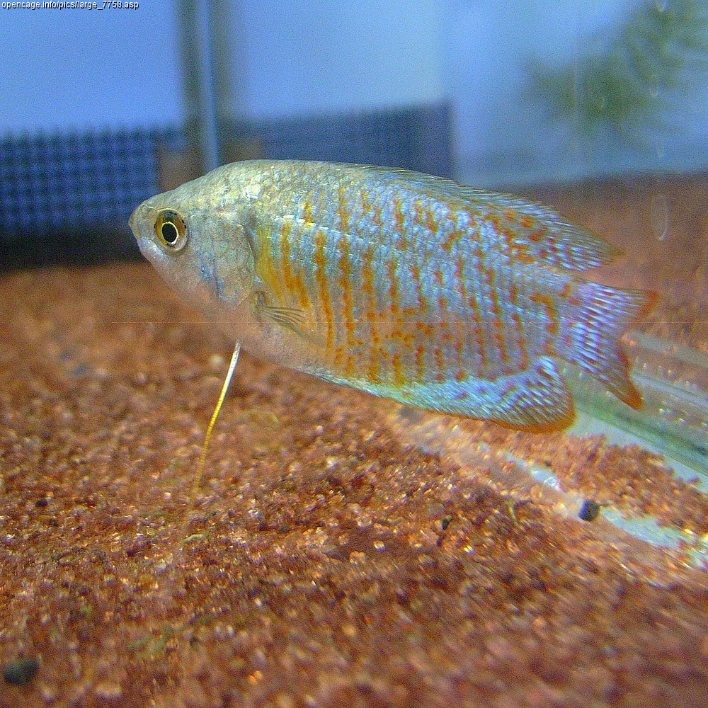 ドワーフグラミー Dwarf gourami (Neon dwarf gourami) Species Colisa lalia male. Familia Belontiidae Location: Nishi-ku, KOBE, Japan Other photos: NCBI Taxonomy ID:50373 Copyright: OpenCage